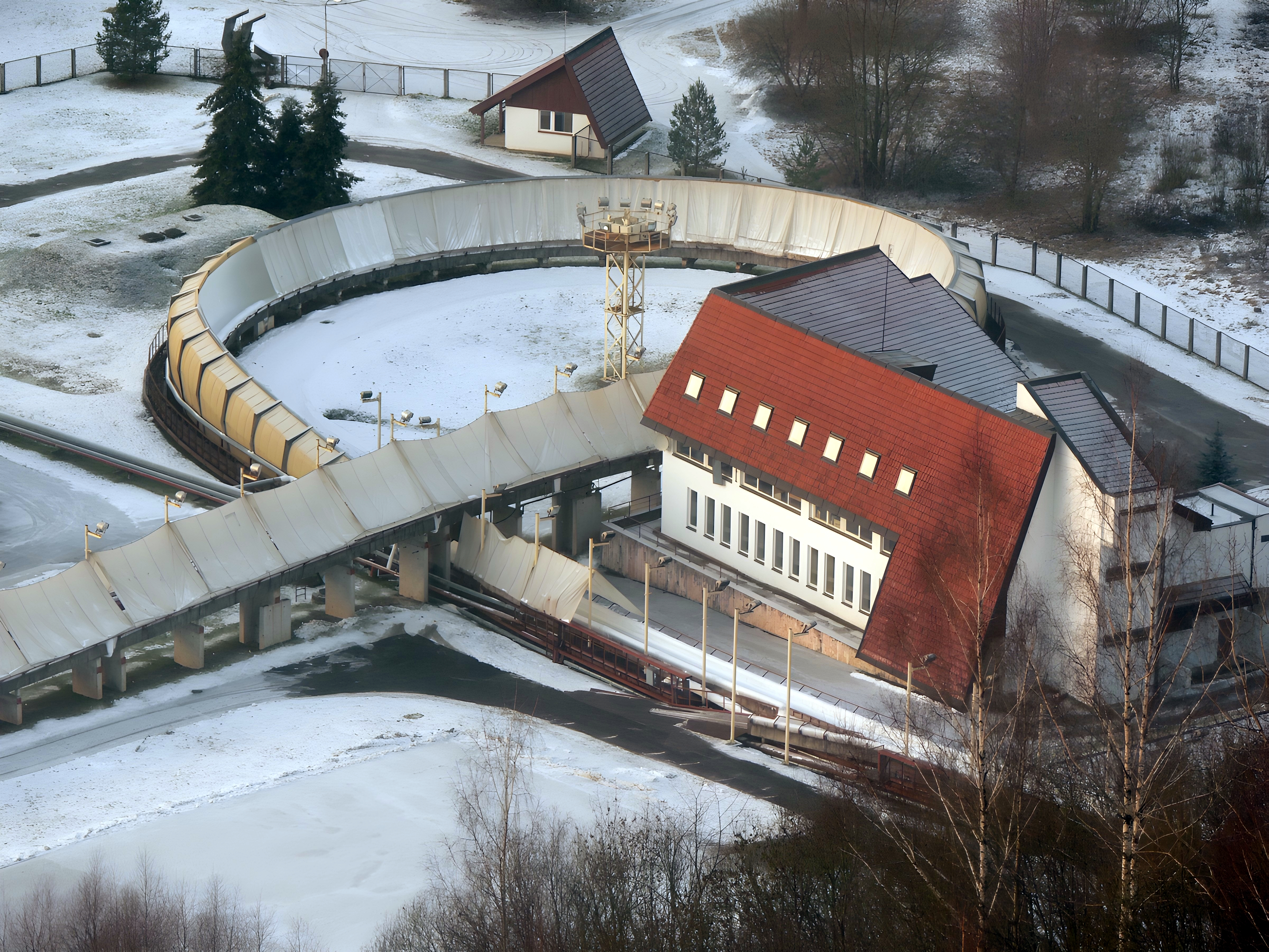 Bobsleigh track in Sigulda, Latvia. About Latvia: Latvia information blog: maps, prices, places in Latvia and Riga Copyright: This is a free image, licensed under Creative Commons, you can use it for your blog, website or other work. Just drop me a line - I love to see my pictures are useful for others.